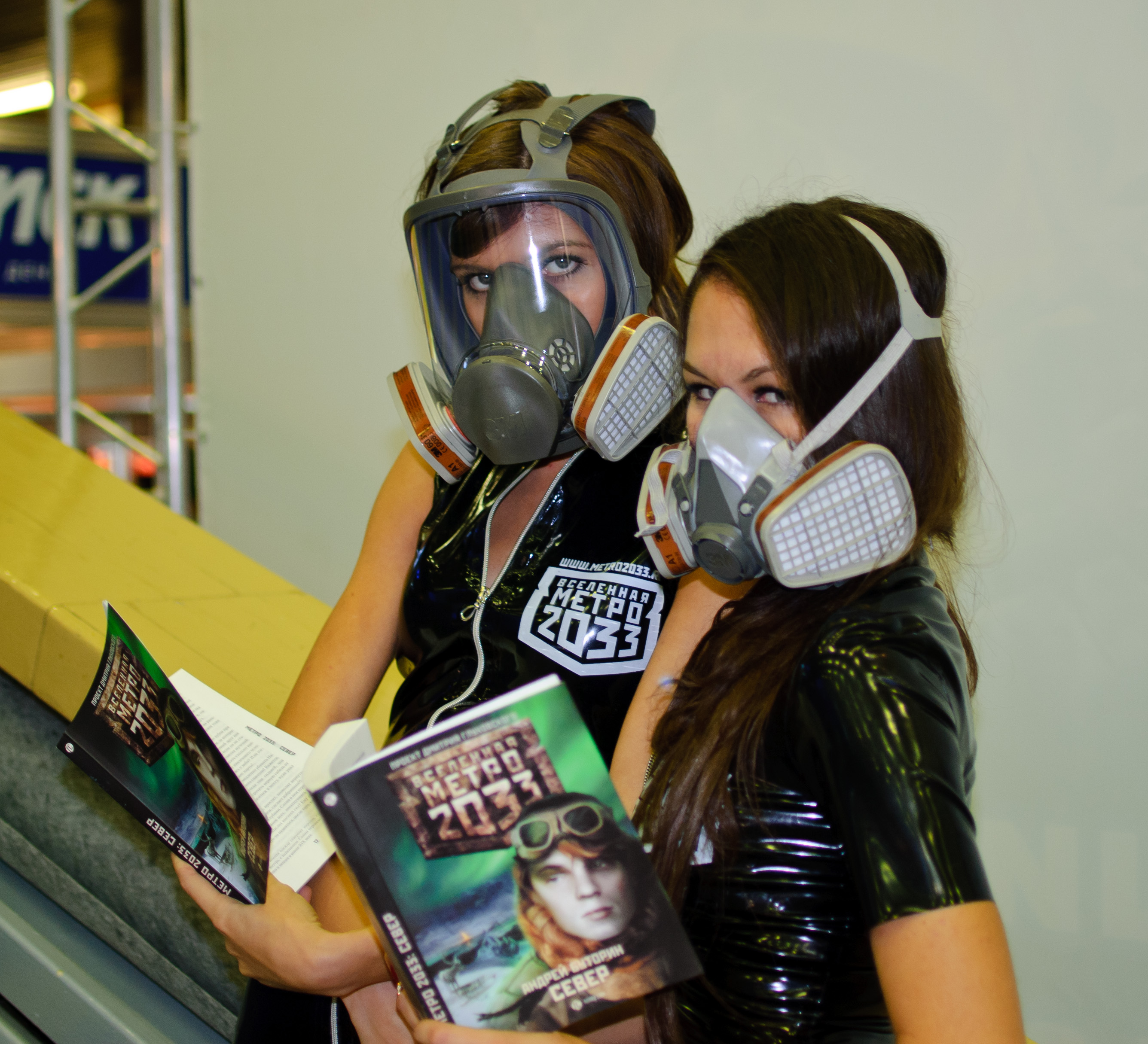 Girls of Igromir 2010